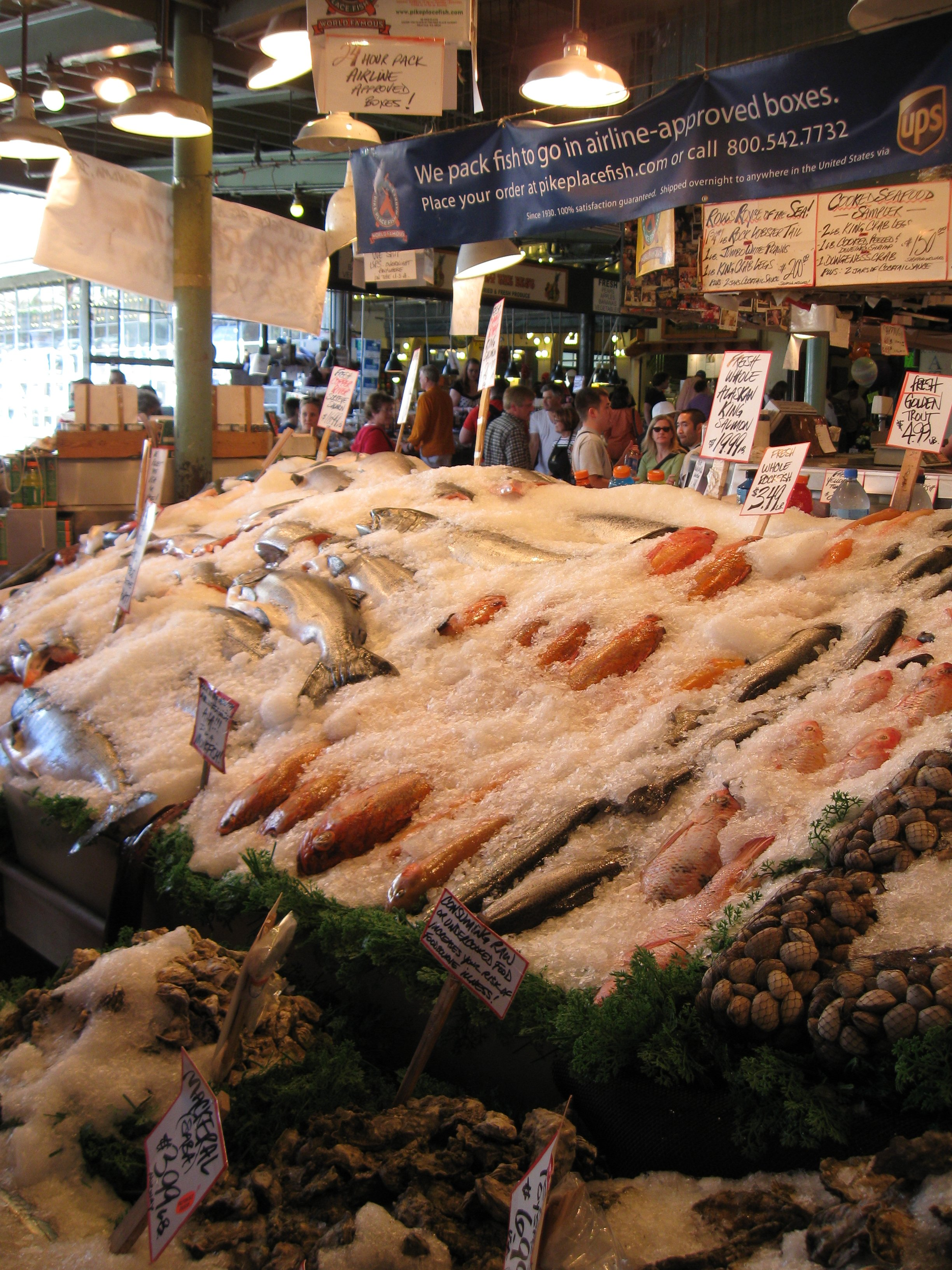 Pike Place Market fish on ice